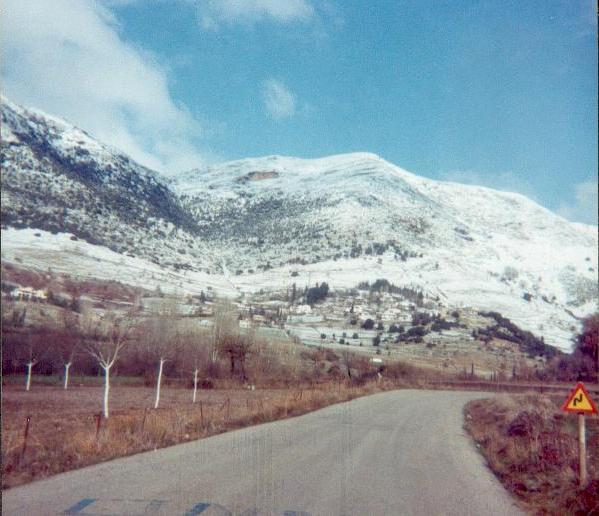 Greek village, Pefko with snow